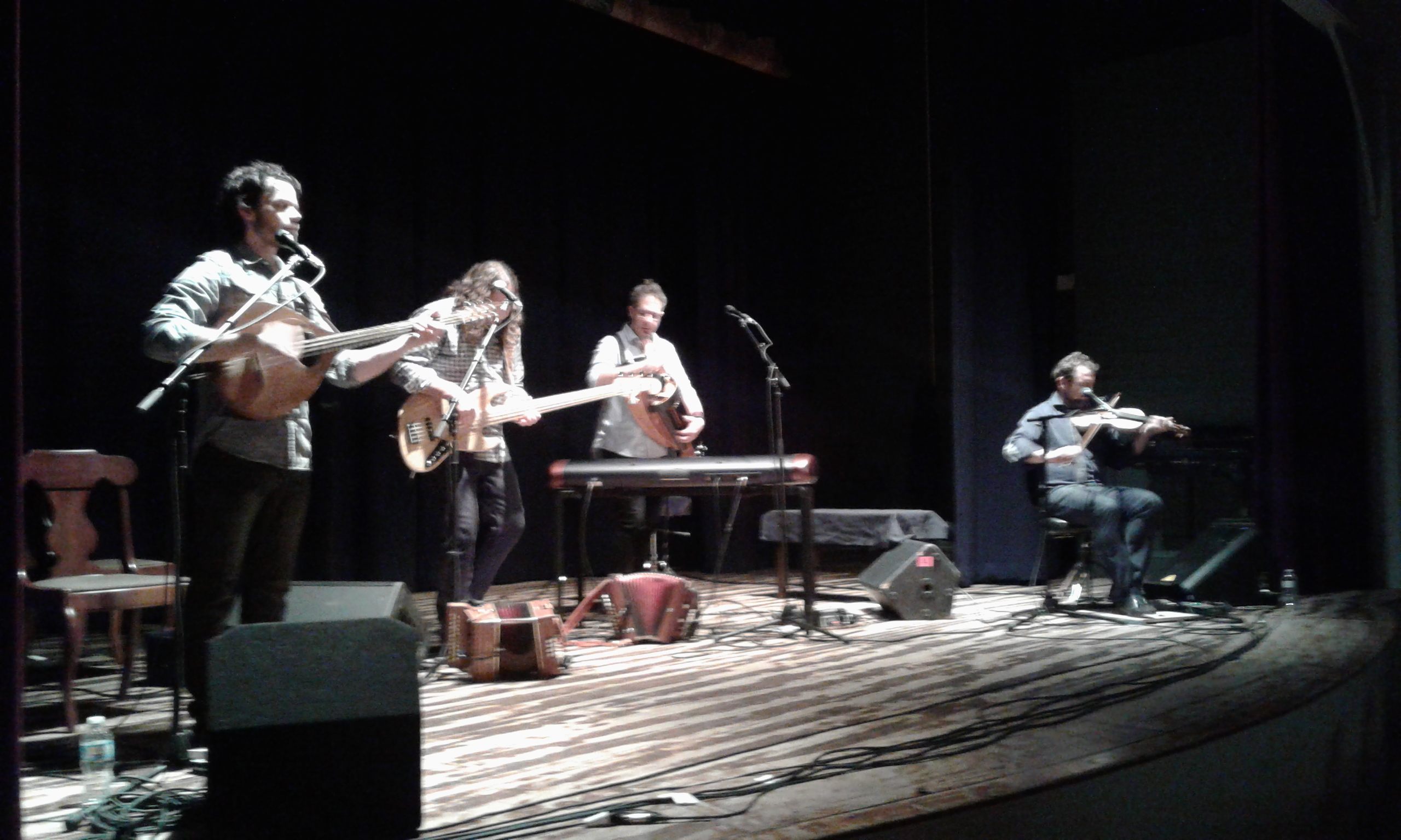 Le Vent du Nord--traditional music group from Montreal, Quebec, Canada--performs on stage at Alumni Hall in Haverhill, New Hampshire.